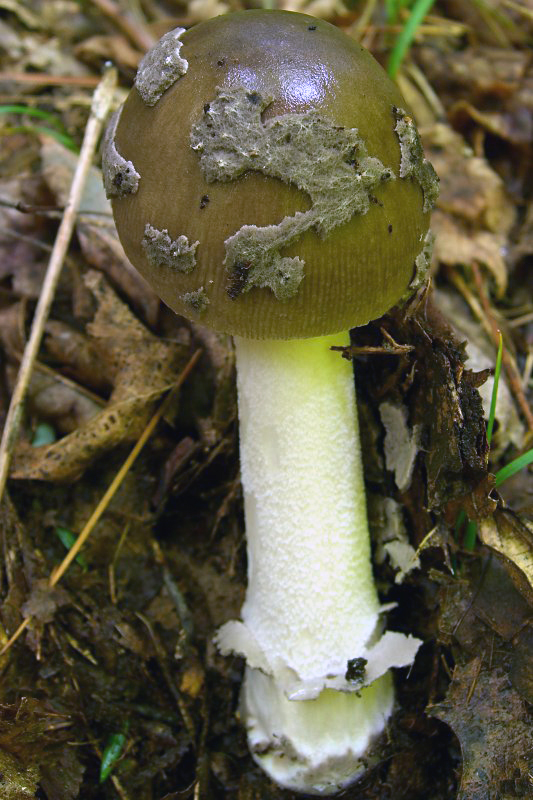 Scientific Name: Amanita inaurata Secr. Common Name: Strangulated Amanita Certainty: positive (notes) Location: Southern Appalachians; Smokies; CabinCove Shows patches of universal veil on cap (and surrounding leaves!) -- those patches don't typically last very long. Also note that it is distinctly striate right from the start.